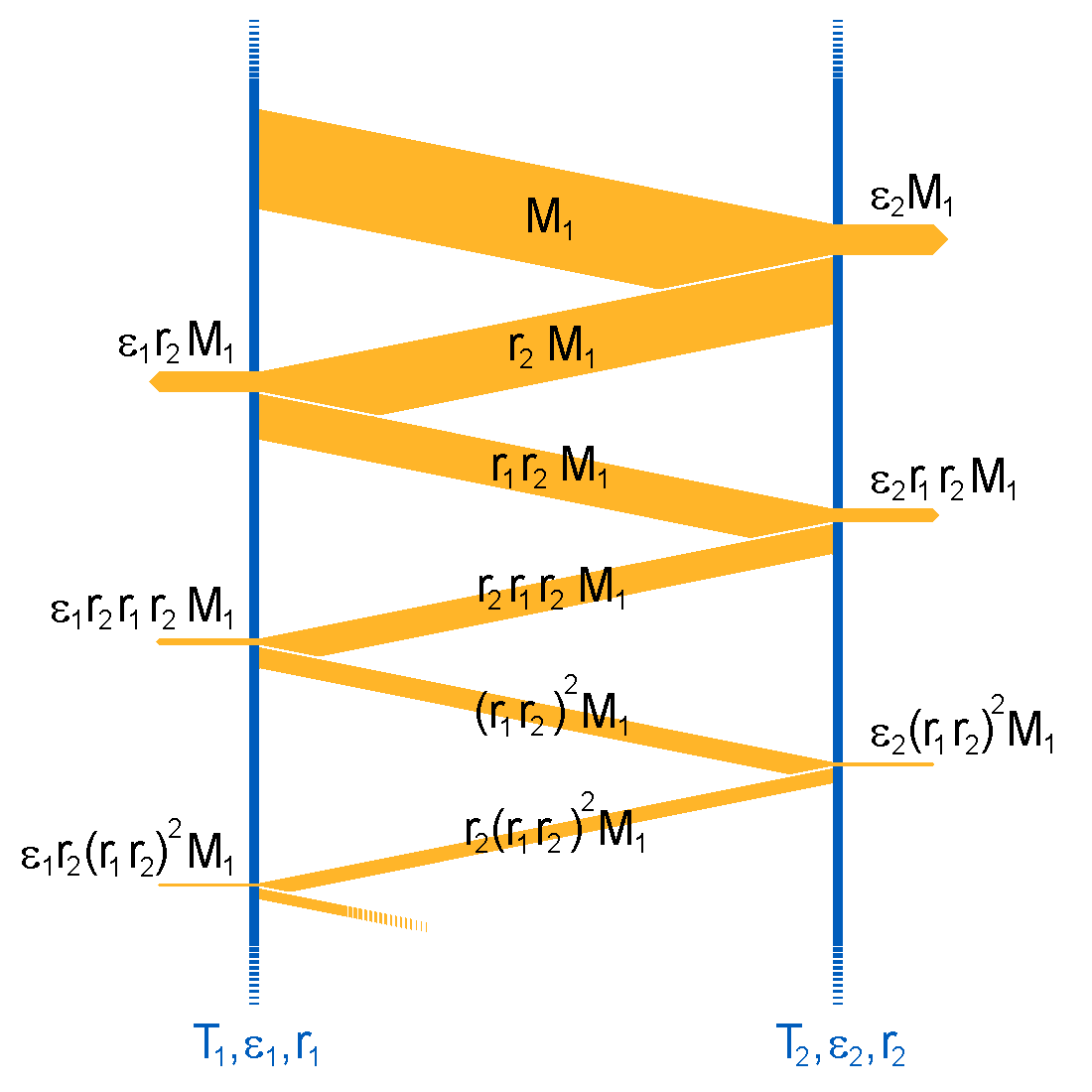 Schematic diagram showing the exchange of thermal radiation between two parallel plates with temperature, emissivity and reflectivity T1, epsilon1, r1 and T2, epsilon2, r2, respectively. Both plates have reflectivity 67%; it takes multiple reflections for the emitted radiation to be completely absorbed. The diagram only shows the thermal radiation emitted by plate 1. The radiation emitted by plate 2 behaves in a similar manner. Source: Drawn by myself Date: 2007 Apr 17 Author: Sch